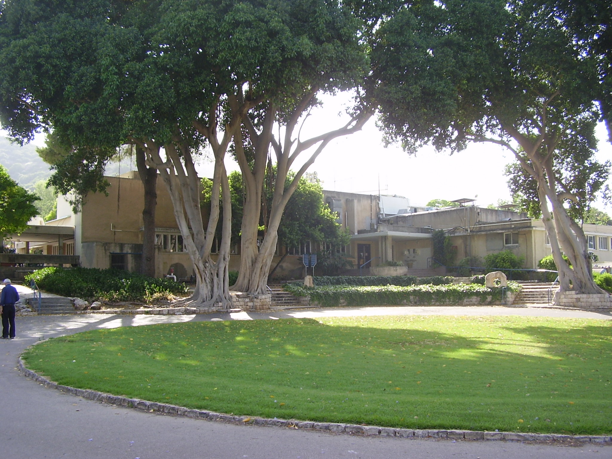 \"The Circle\" and dining house in Yagur